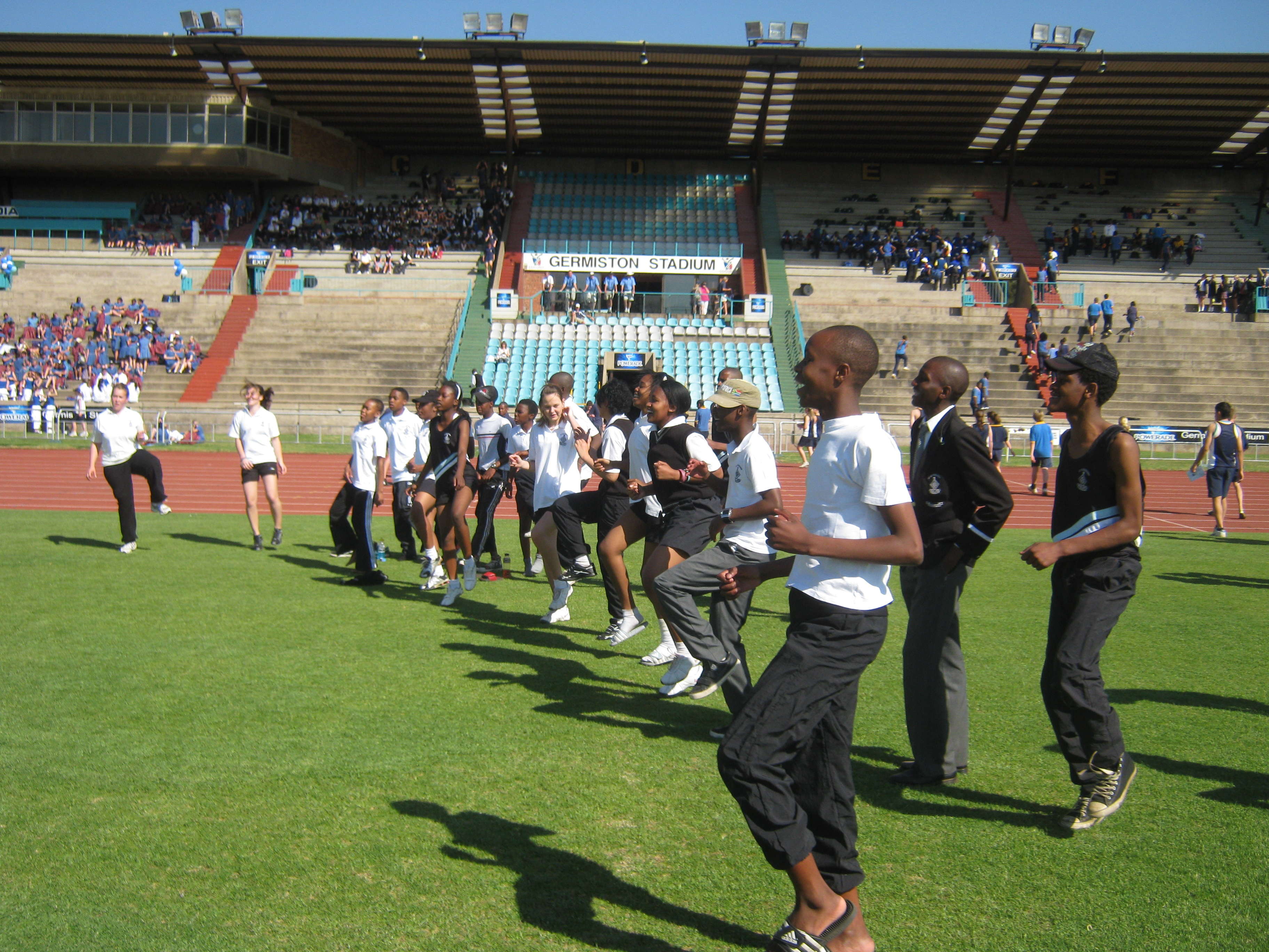 Athletes from St Catherine's, Germiston, warm up ahead of the 2009 South Gauteng Inter-Catholic athletics competition.